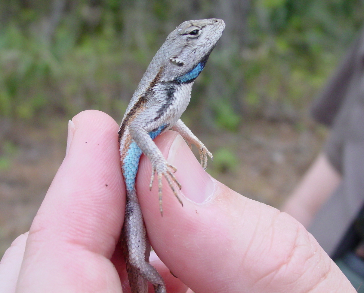 Florida Scrub Lizard, Enchanted Forest, 3-14-05